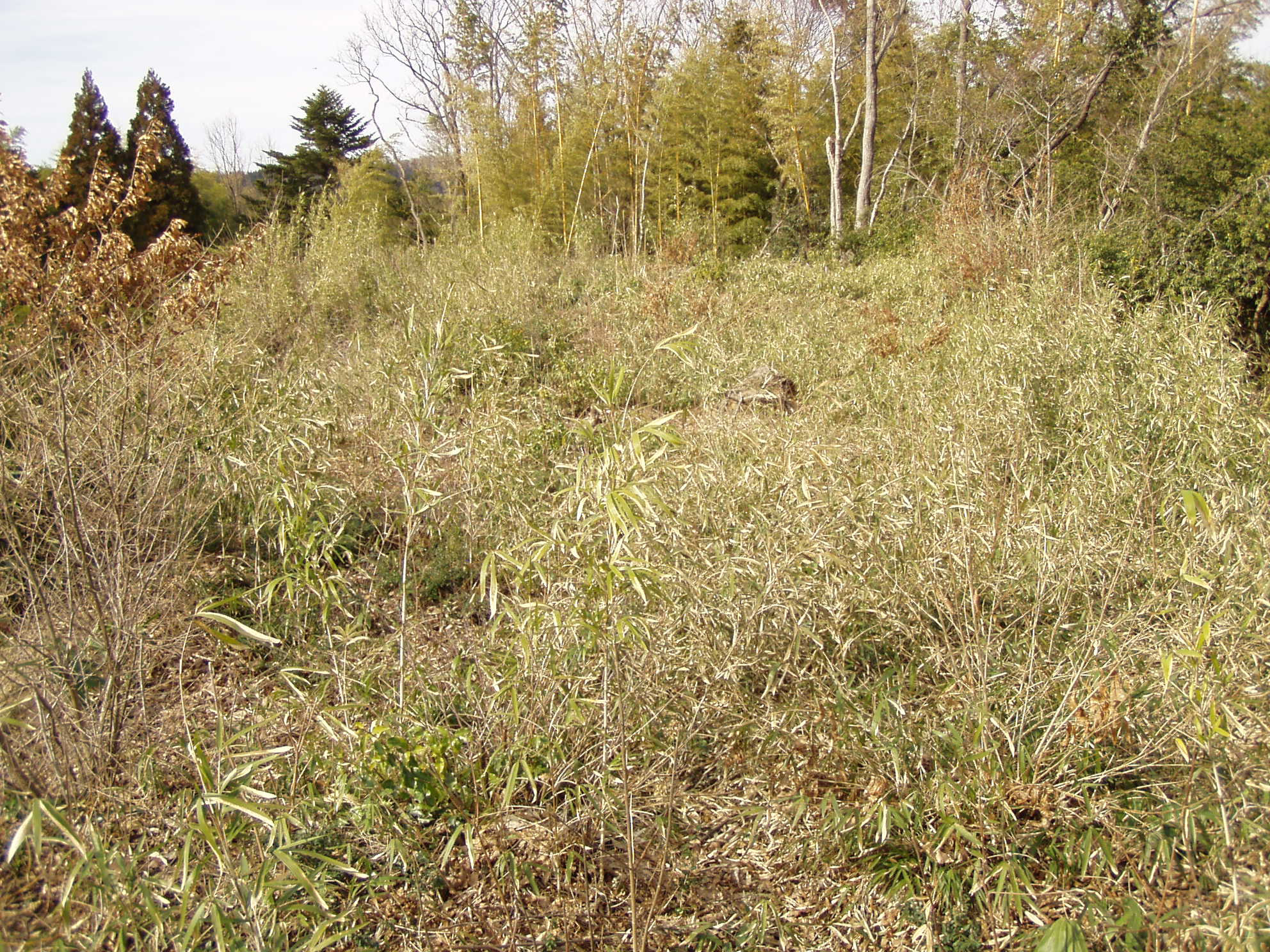 photo of Nakamura castle (Toyama Japan)